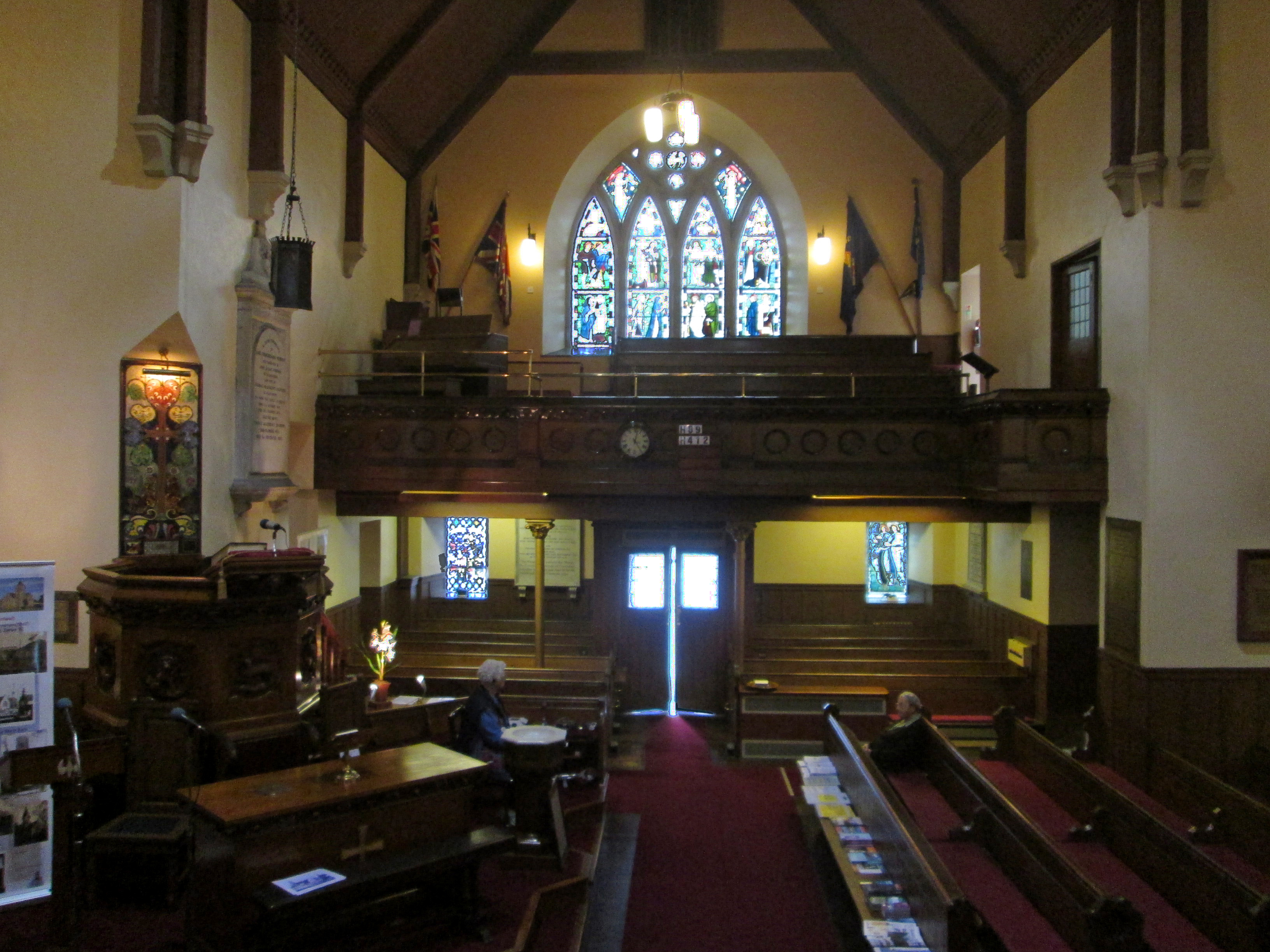 The Old West Kirk in Greenock, view from the Laird's Loft to the Cartsburn Aisle, with the pulpit to the left